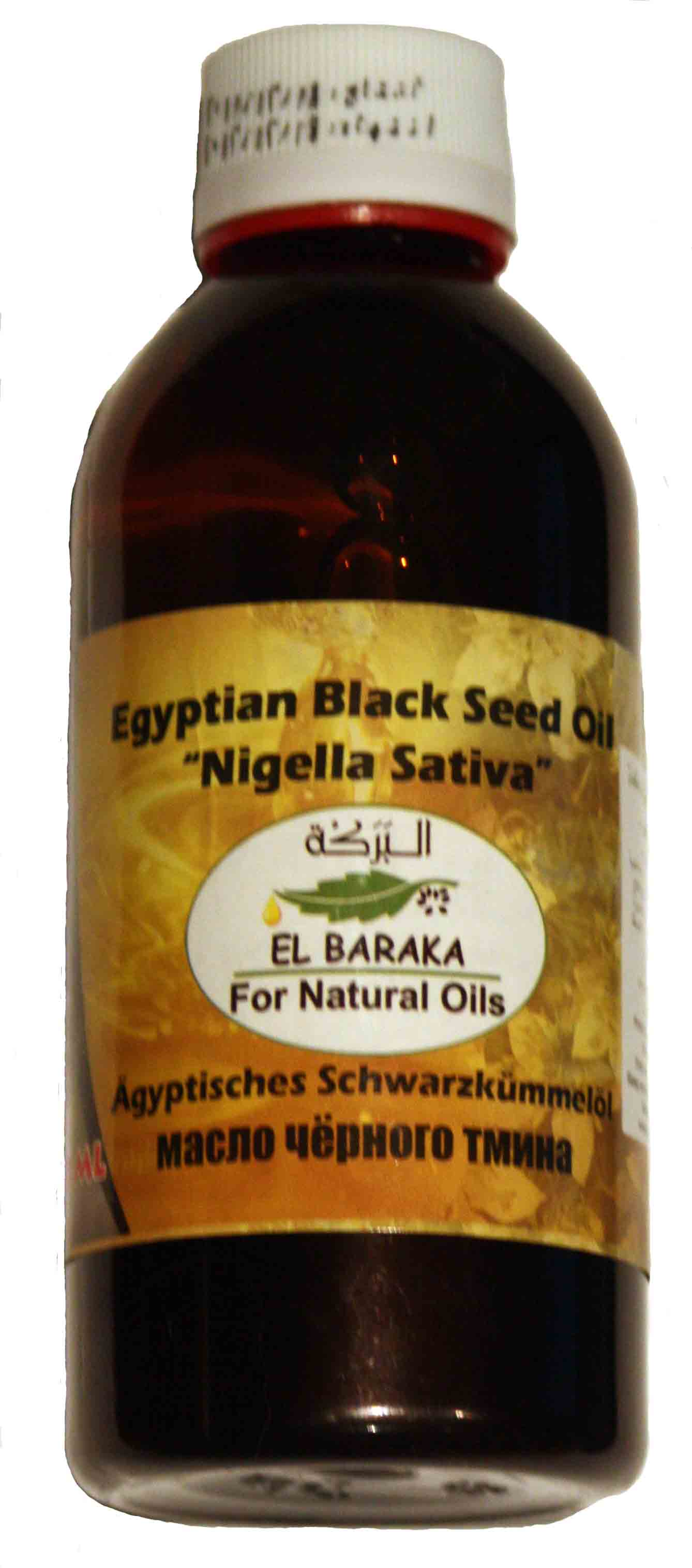 Efyptian Black seed (Nigella sativa) oil from EL BARAKA.